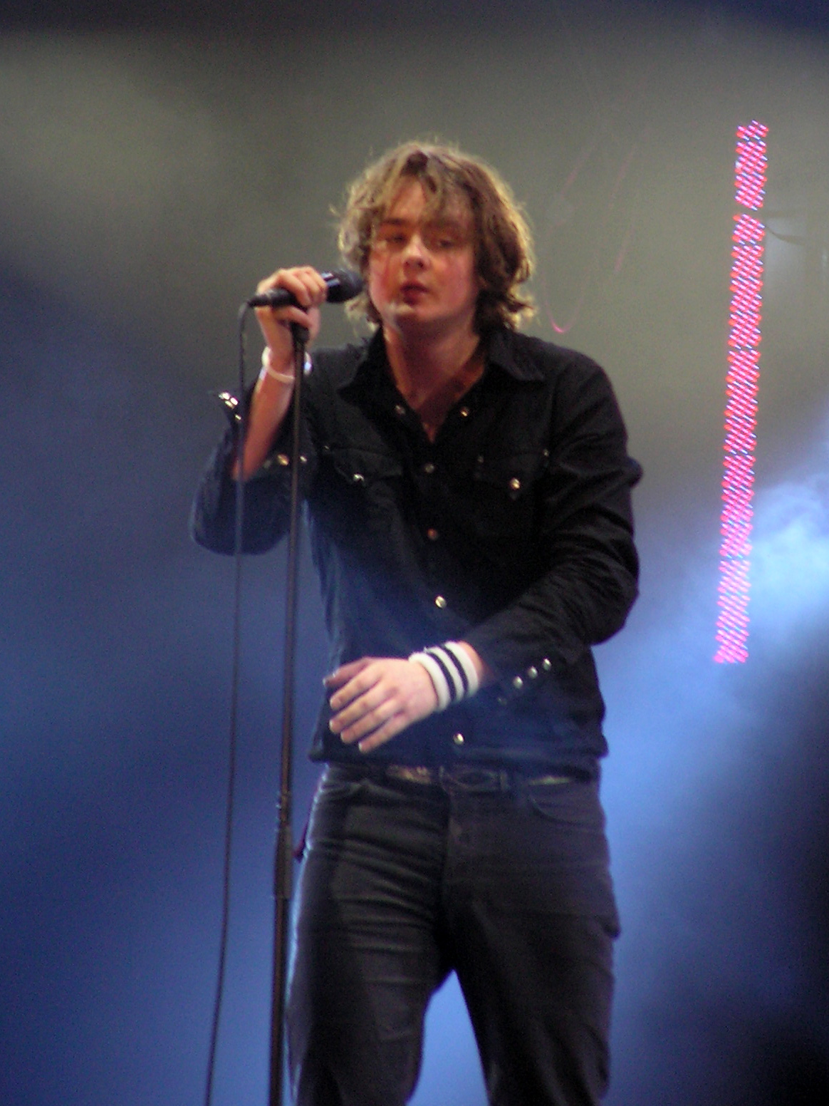 Tom Chaplin, lead singer of the band Keane, performing during the January 2005 Tsunami Relief Cardiff concert.